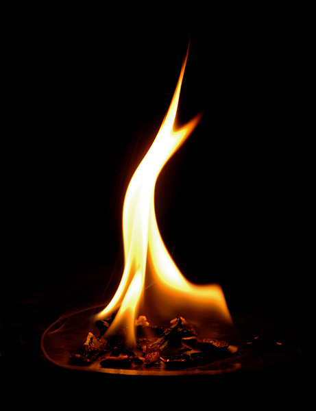 This image shows a flame.